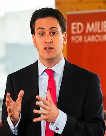 Ed Miliband. („Ed's speech on how we need fundamental change in the Labour party to win again.“)